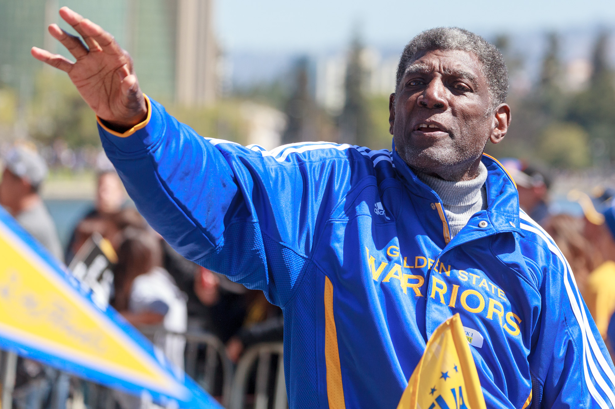 Al Attles at the Golden State Warriors Victory Parade on 19 June 2015